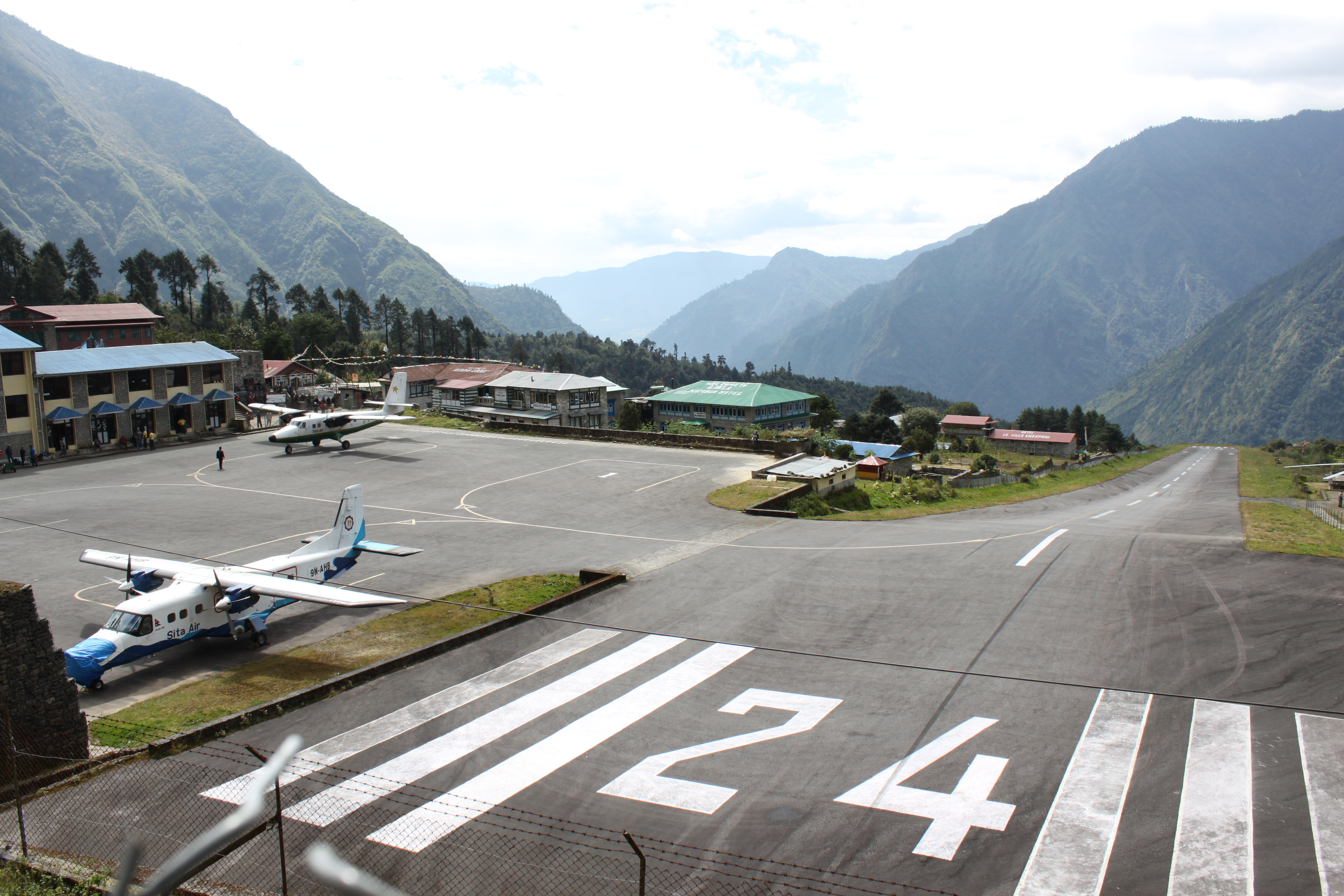 Lukla Airport 2010